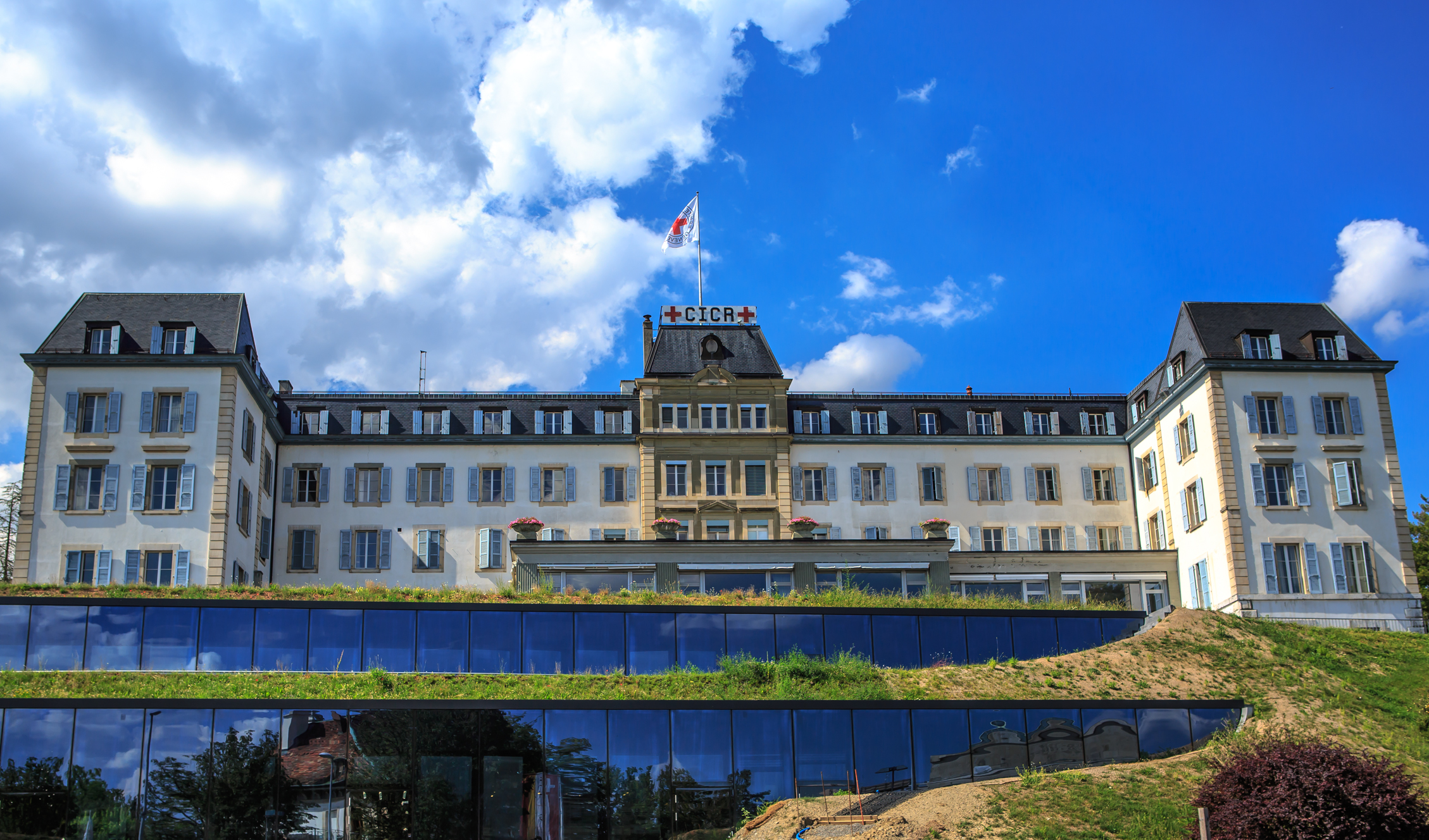 Geneva City scenes